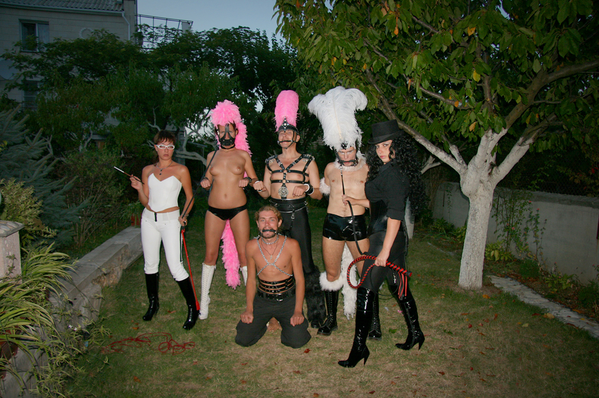 Photo from Ponyplay event in Ukraine.